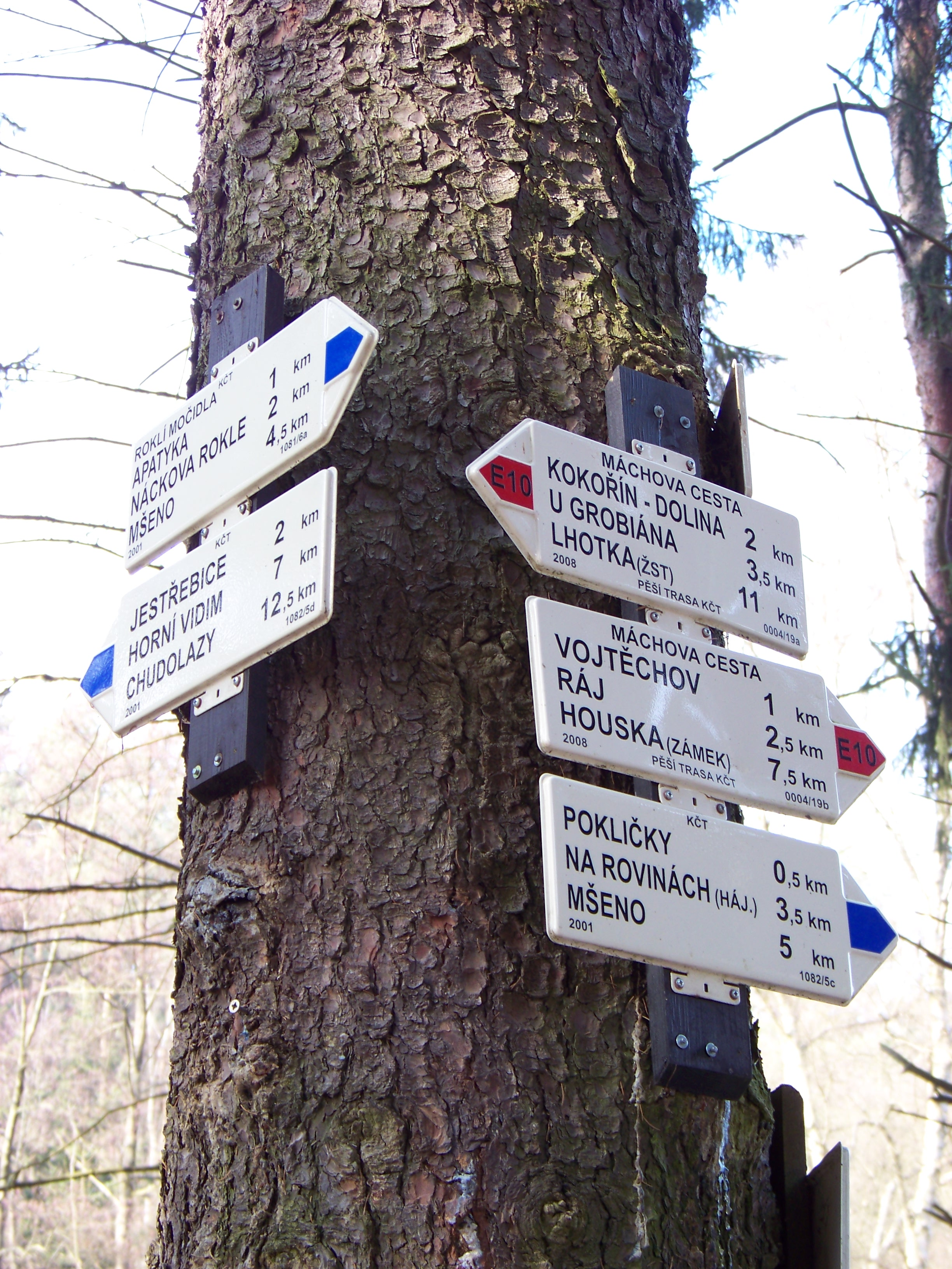 Kokořín and Mšeno, Mělník District, Central Bohemian Region, the Czech Republic. A hiking fingerpost at Gypsy Ground near Hlučov in Kokořín Valley. - OpenStreetMap(Info)